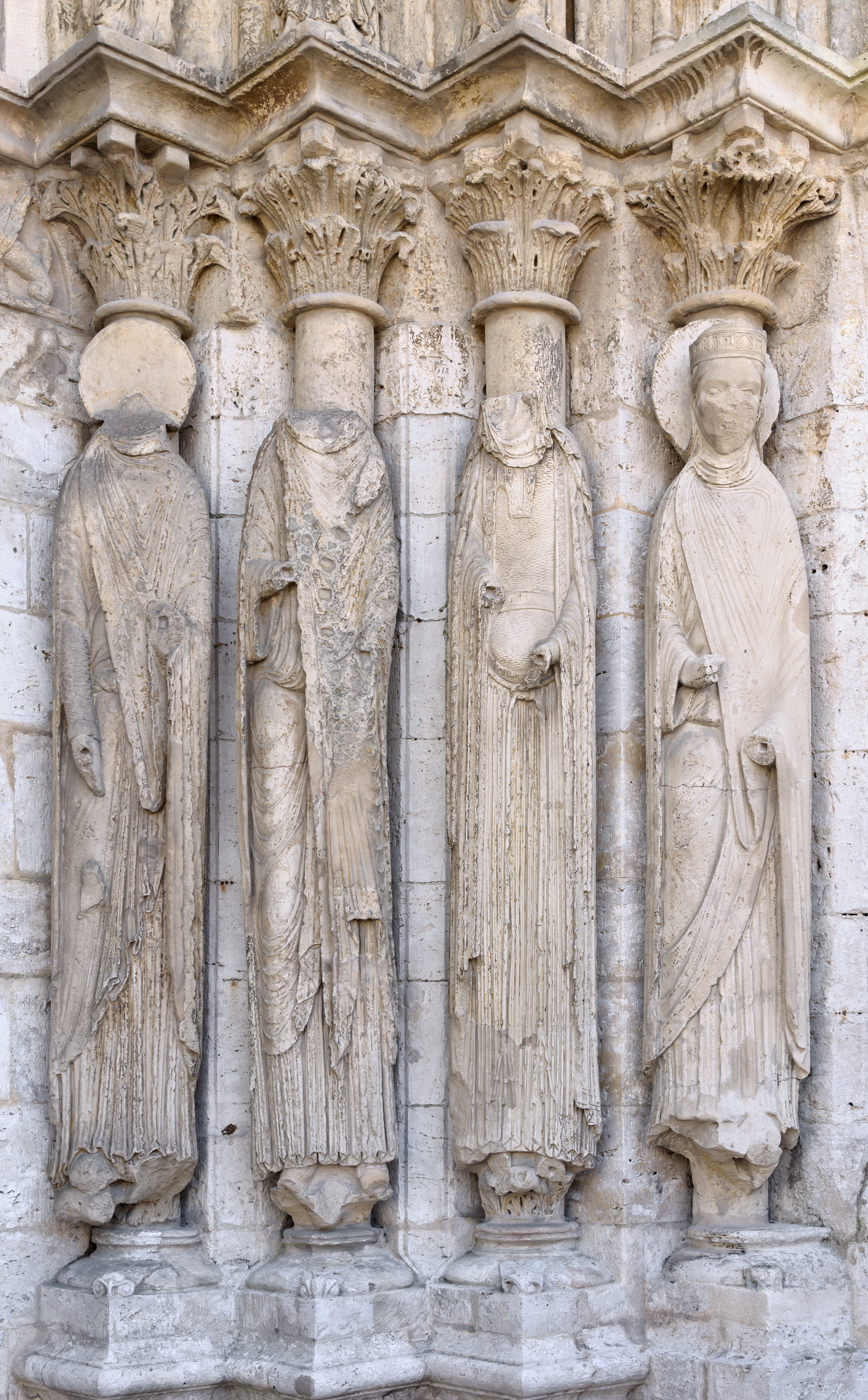 Saint Ayoul church in Provins, Seine-et-Marne, France: statues-columns of the central portal of the west facade.